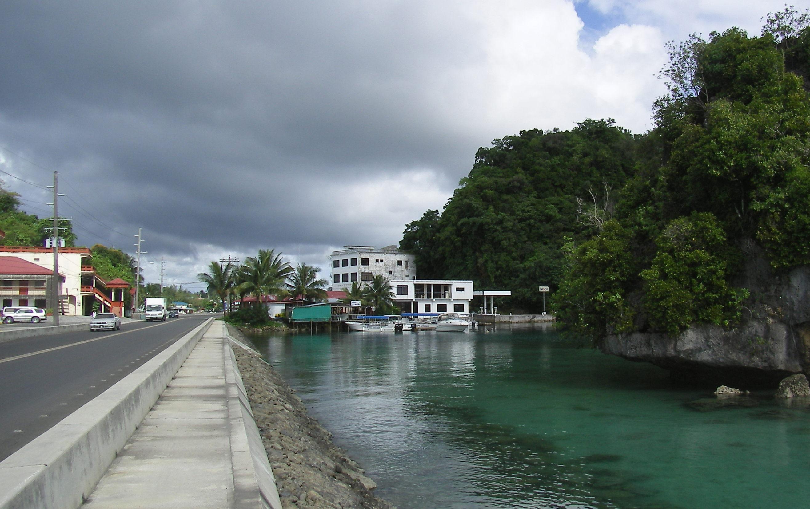 Typical weather on Koror, Republic of Palau.